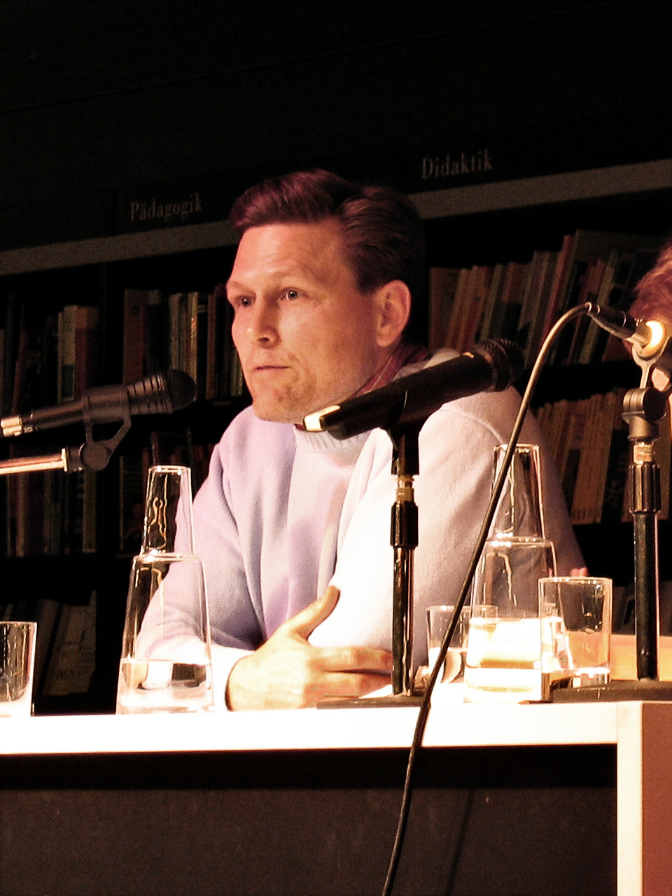 David Baldacci presents his book The Camel Club in Cologne, Germany